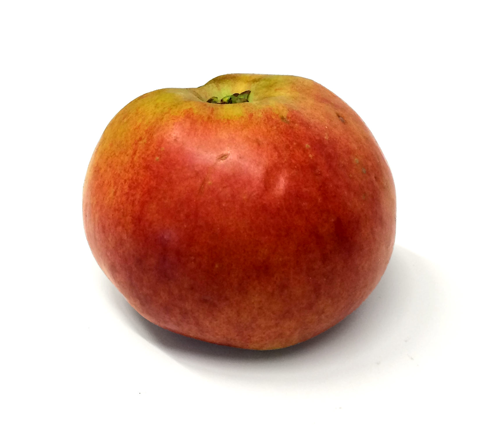 Apple of the cultivar Alexander, photographed in conjunction with the Apple Festival at Nordiska museet, Stockholm, Sweden in September 2014.